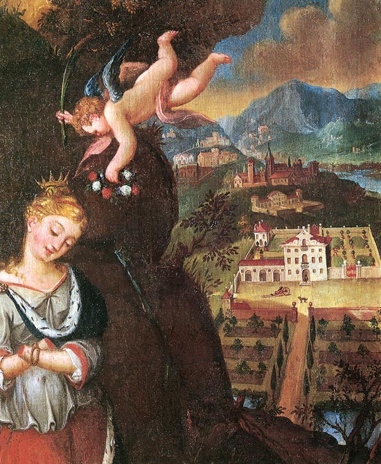 An image of Saint Eurosia from the 17th century. Colle Umberto. In the painting can be seen the Villa Morosini-Lucheschi and the Villa Zuliani-Verecondi.